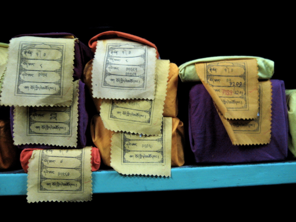 Bookshelf with Tibetan books at a library, McLeod Ganj. Dharamsala.